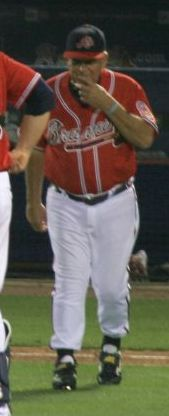 Cropped picture of Bobby Cox, manager of the Atlanta Braves